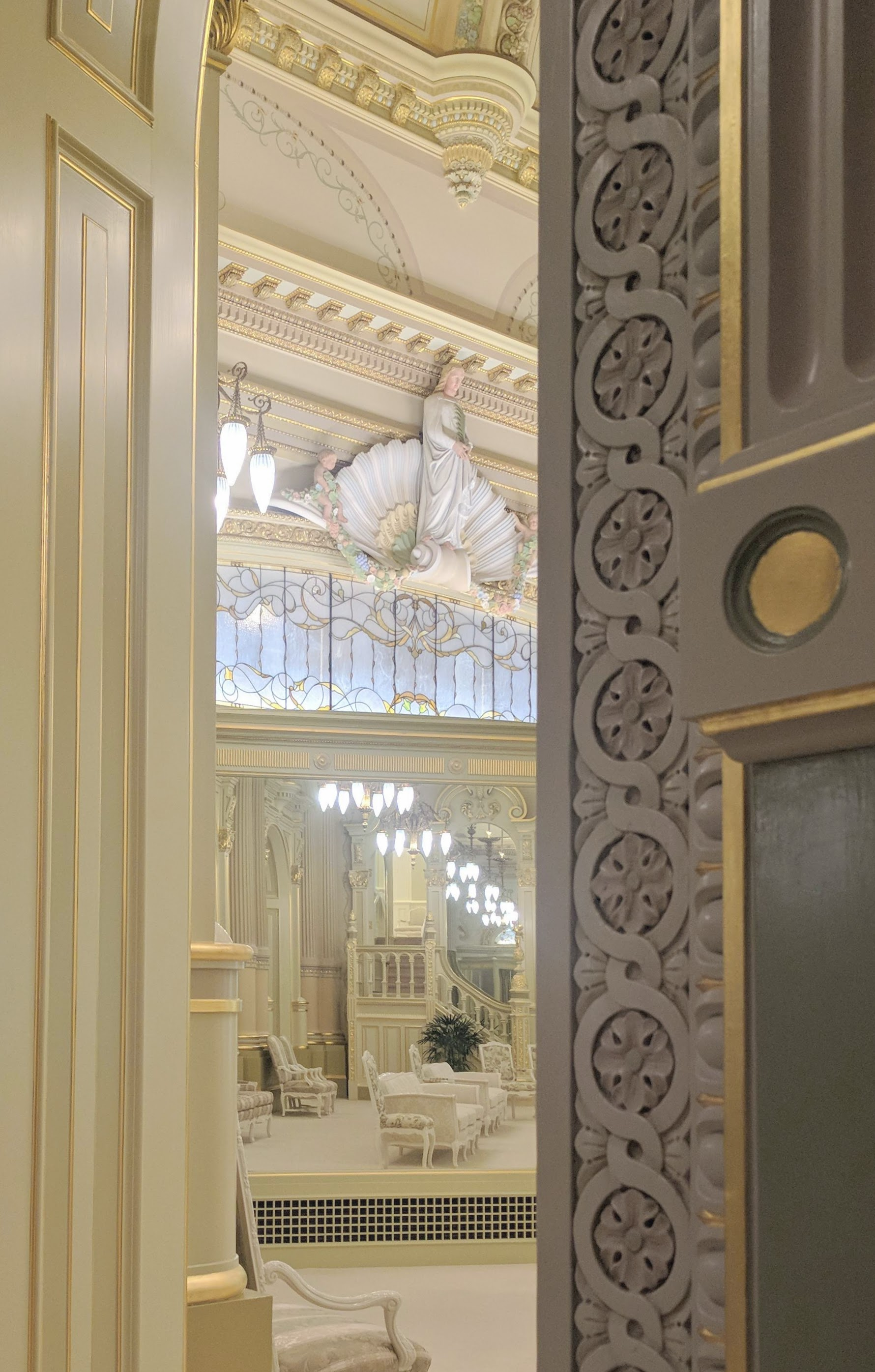 Salt Lake temple celestial room decor